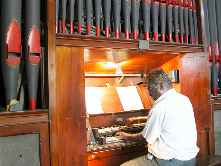 Pipeorgan Played By Mr.David Mohan Sathyaraj